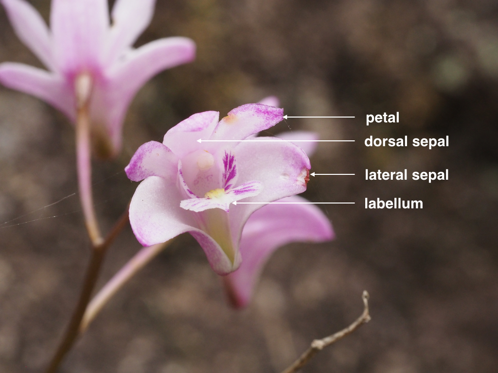 Labelled image of Dendrobium kingianum